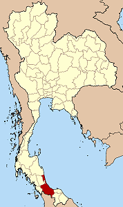 Map of Thailand highlighting Songkhla province